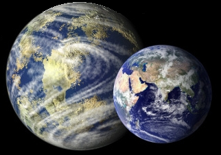 Artist's conception of KOI 172.02 as compared to Earth (actual relative size).